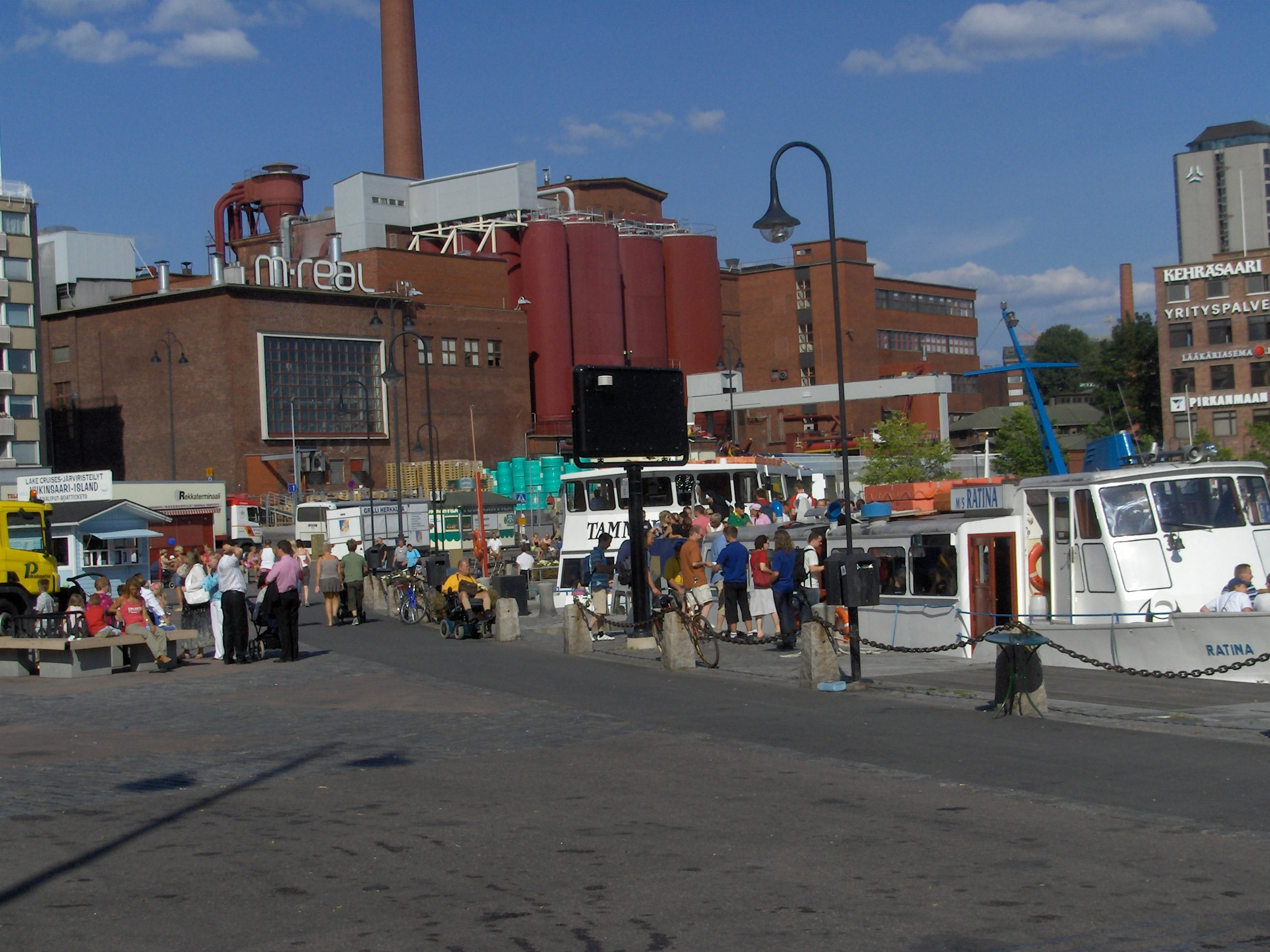 Laukontori harbour in Tampere, Finland